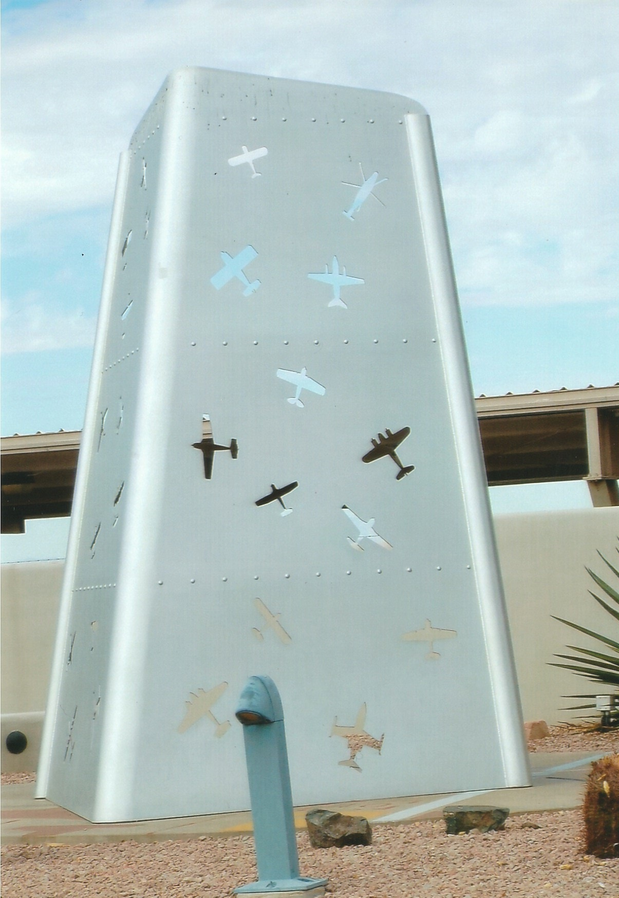 The monument in front of the main terminal of the Phoenix Deer Valley Airport which was built in 1975.